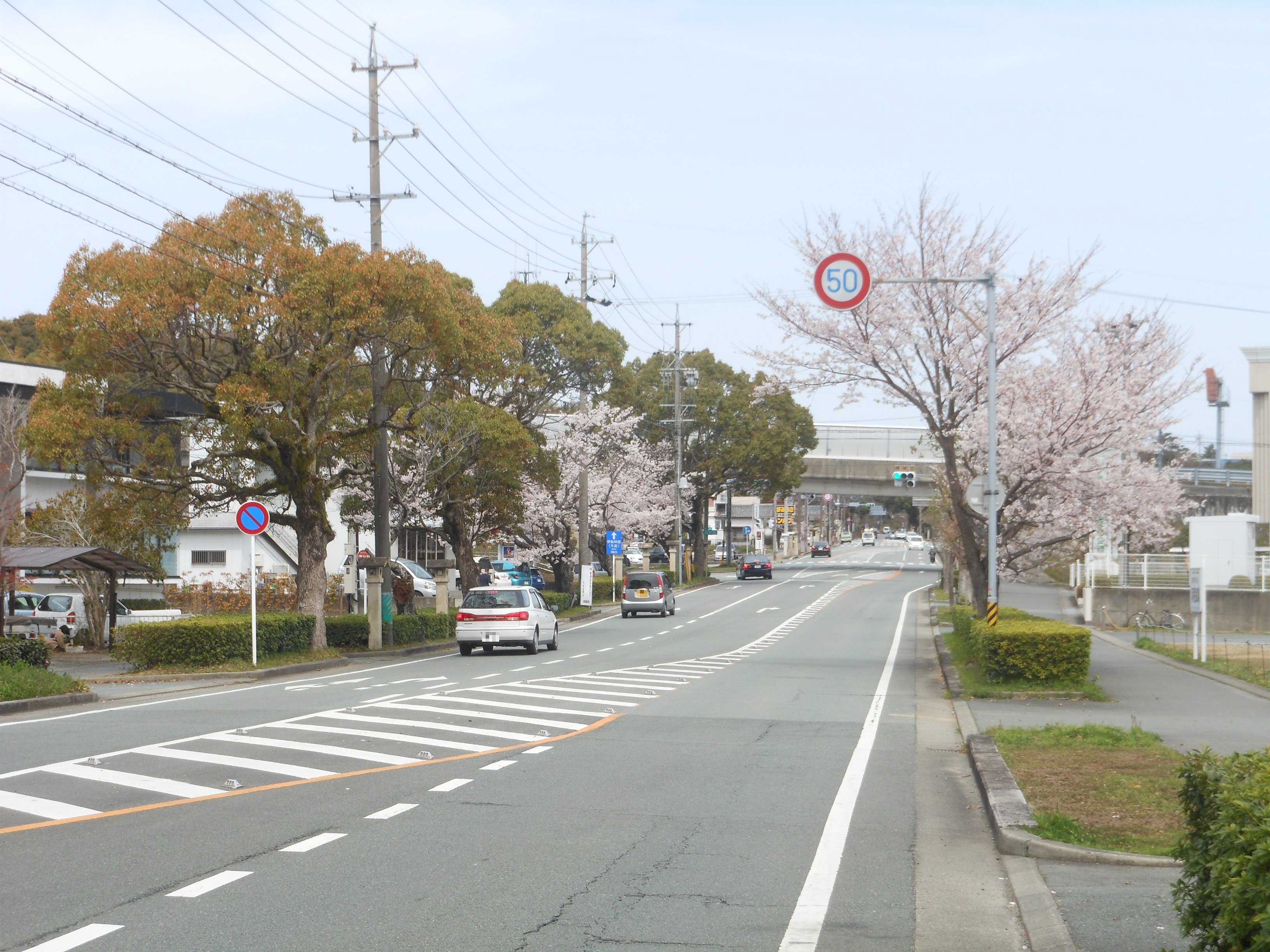 The Mie Prefectural Road Route 37 near the Miyuki Road Intersection in Kusubecho, Ise City